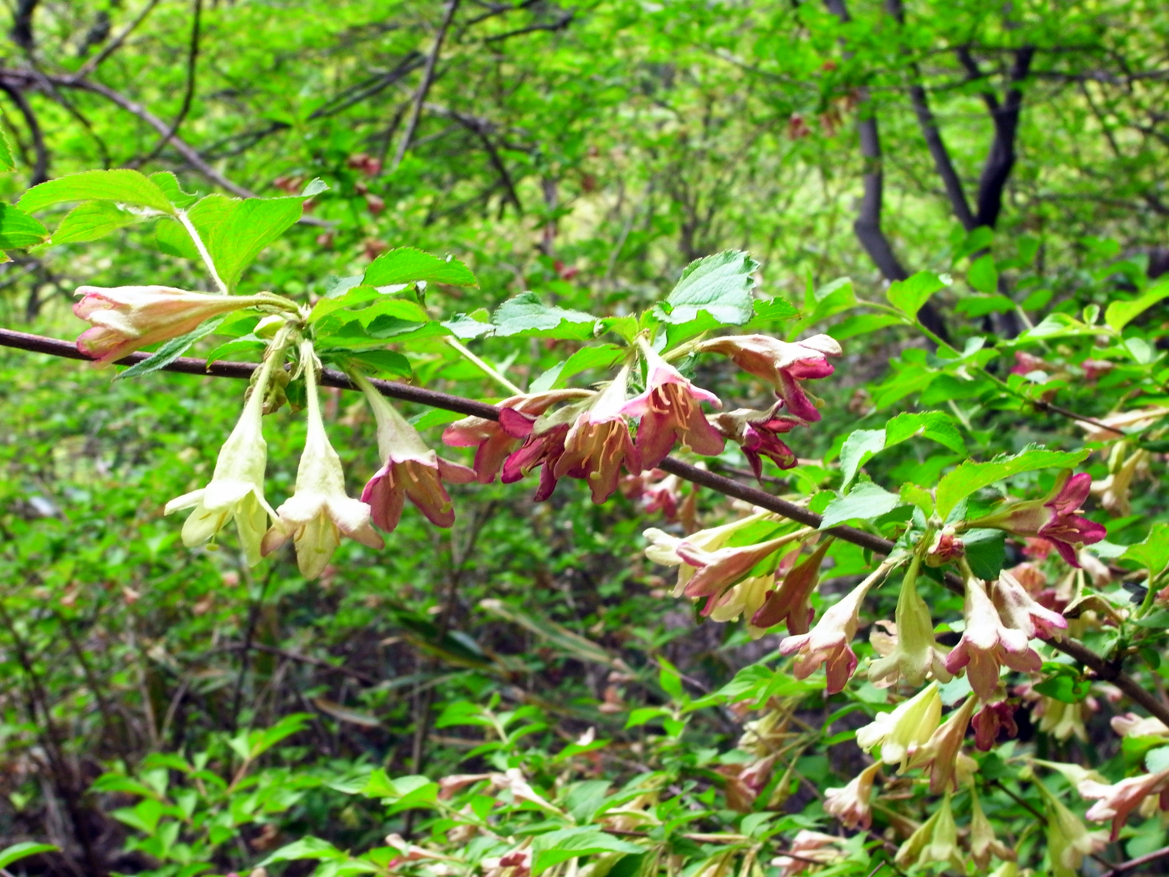 Weigela subsessilis in Jirisan, Korea